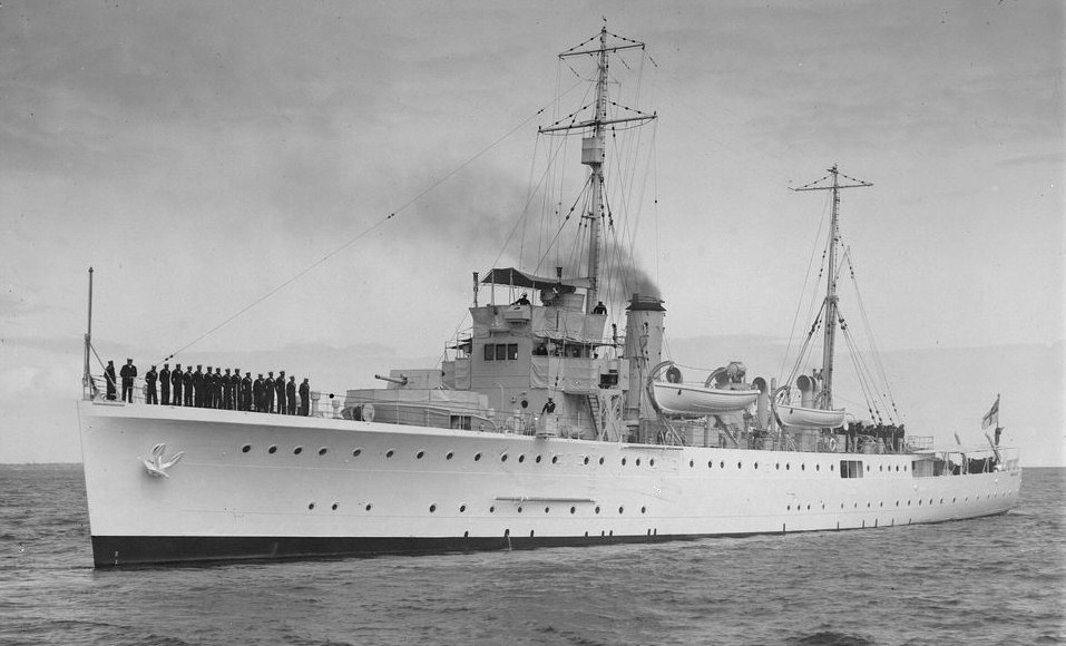 HMIS Hindustan, later Pakistani Karsaz